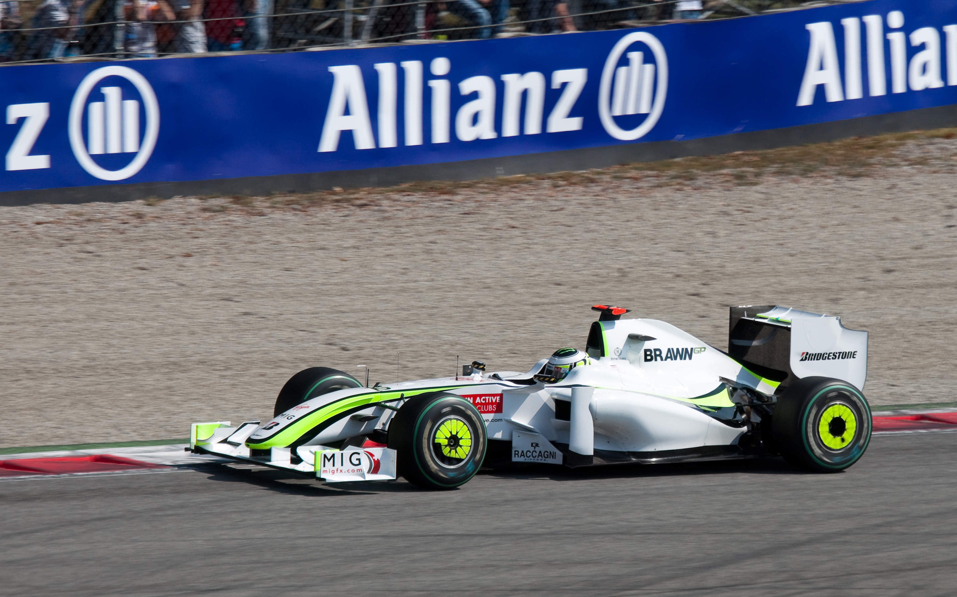 Jenson Button driving for Brawn GP at the 2009 Italian Grand Prix.